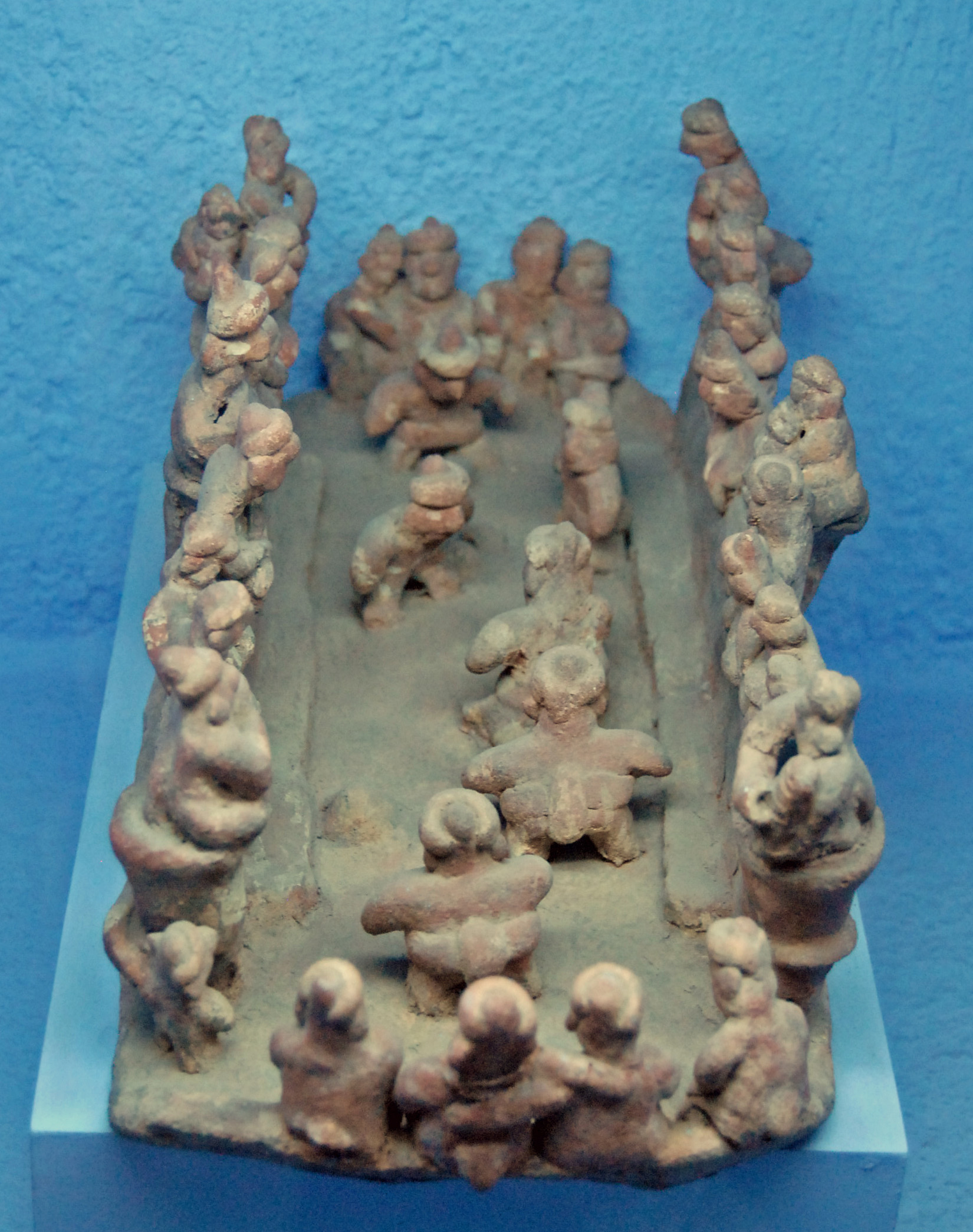 An ancient ceramic work of art from a Western Mexican tomb showing players engaged in the Mesoamerican ball game. Probably from Nayarit, perhaps 300 BC to 250 AD. Taken at the Museo Rufino Tamayo of Oaxaca.